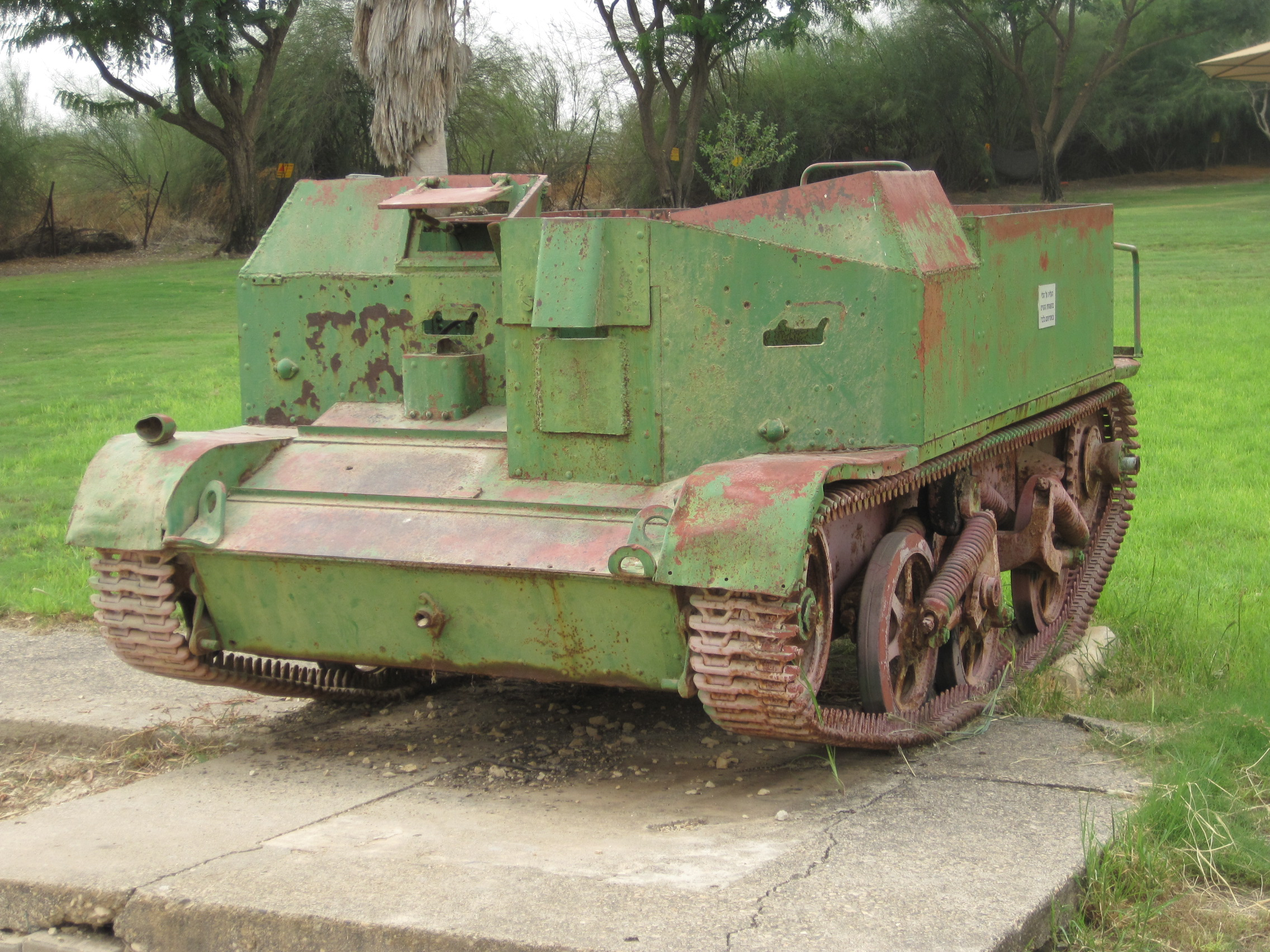 Universal Carrier (Bren Carrier) in Kibbutz Gesher